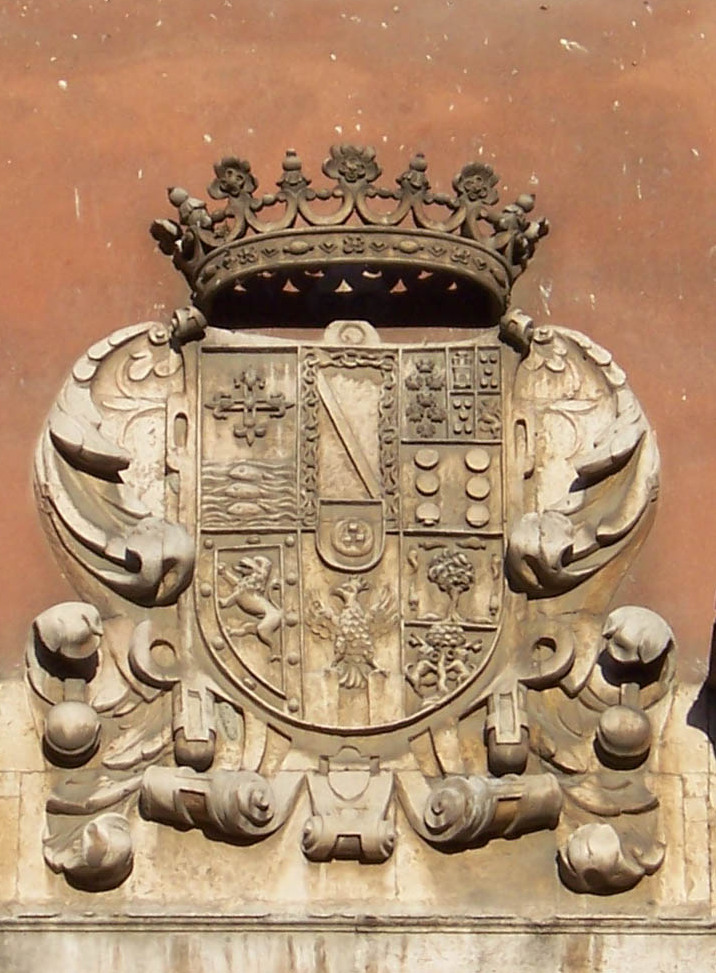 Classicist palace named Fabio Nelli in Valladolid, Spain. The current coat of arms on the center of the split pediment of the palace belongs to Fabio Nelli's grandson, Baltasar de Rivadeneira y Zúñiga.